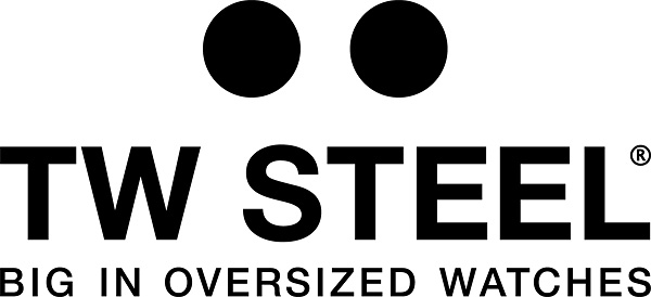 TW Steel